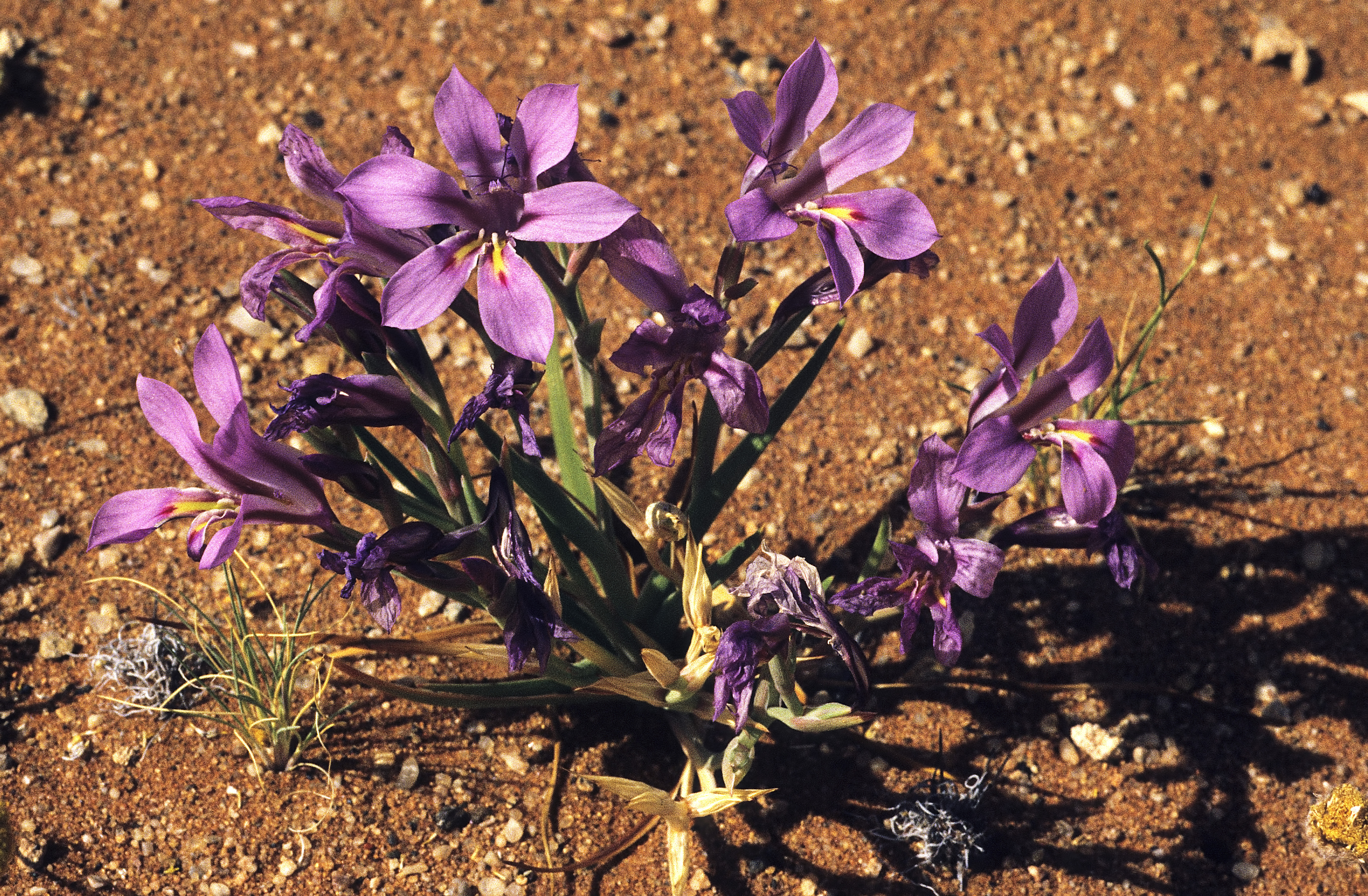 Lapeirousia barklyi, plant in flower. West of Obib Mountain, southern Namib Desert, Rosh Pinah, Namibia